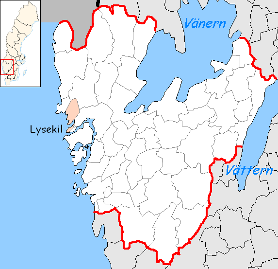 Lysekil Municipality in Västra Götaland County Designed by me. Mere outlines are a PD source from